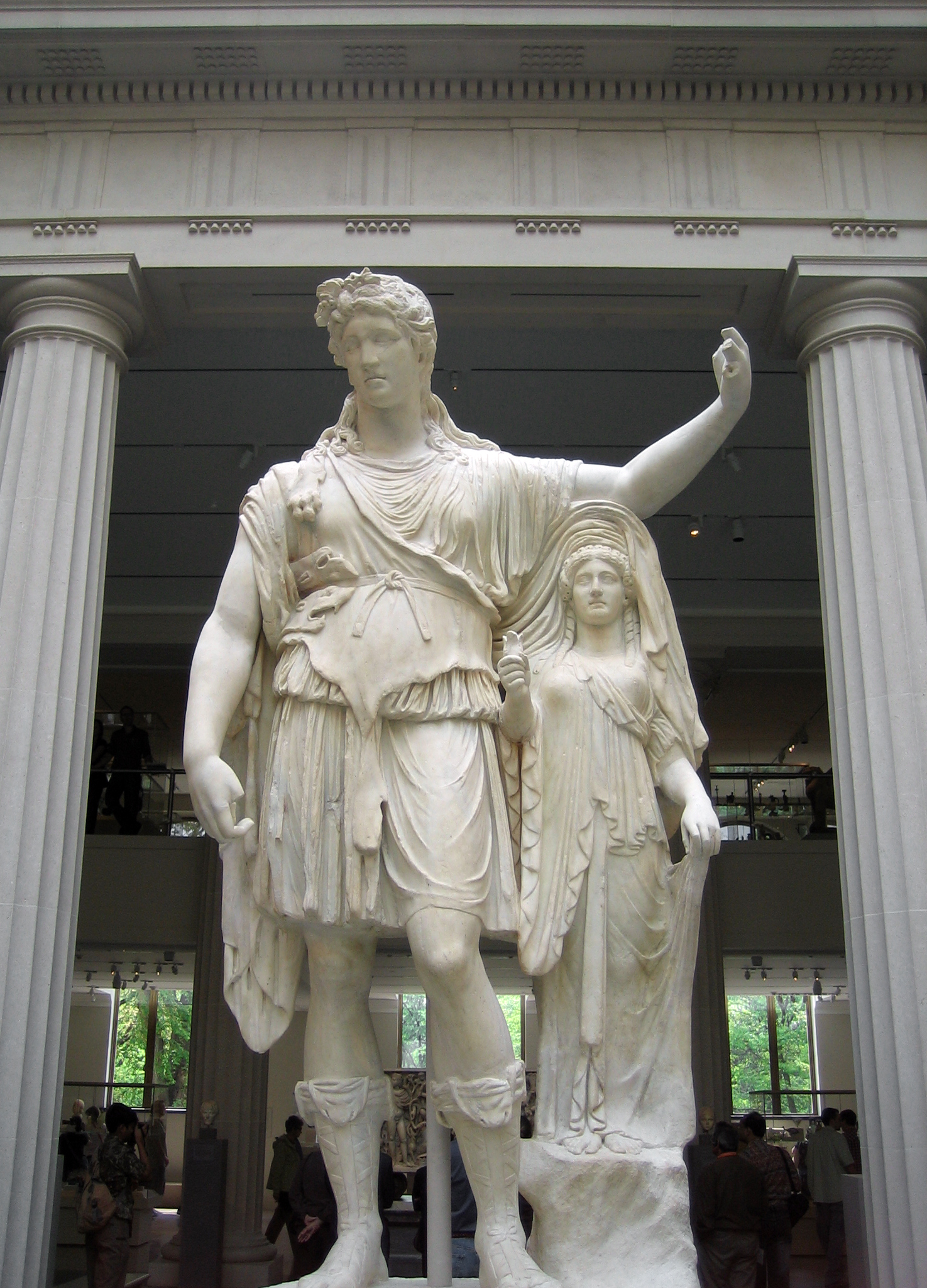 A Roman statue in the Greco-Roman section of Metropolitan museum of New York City.